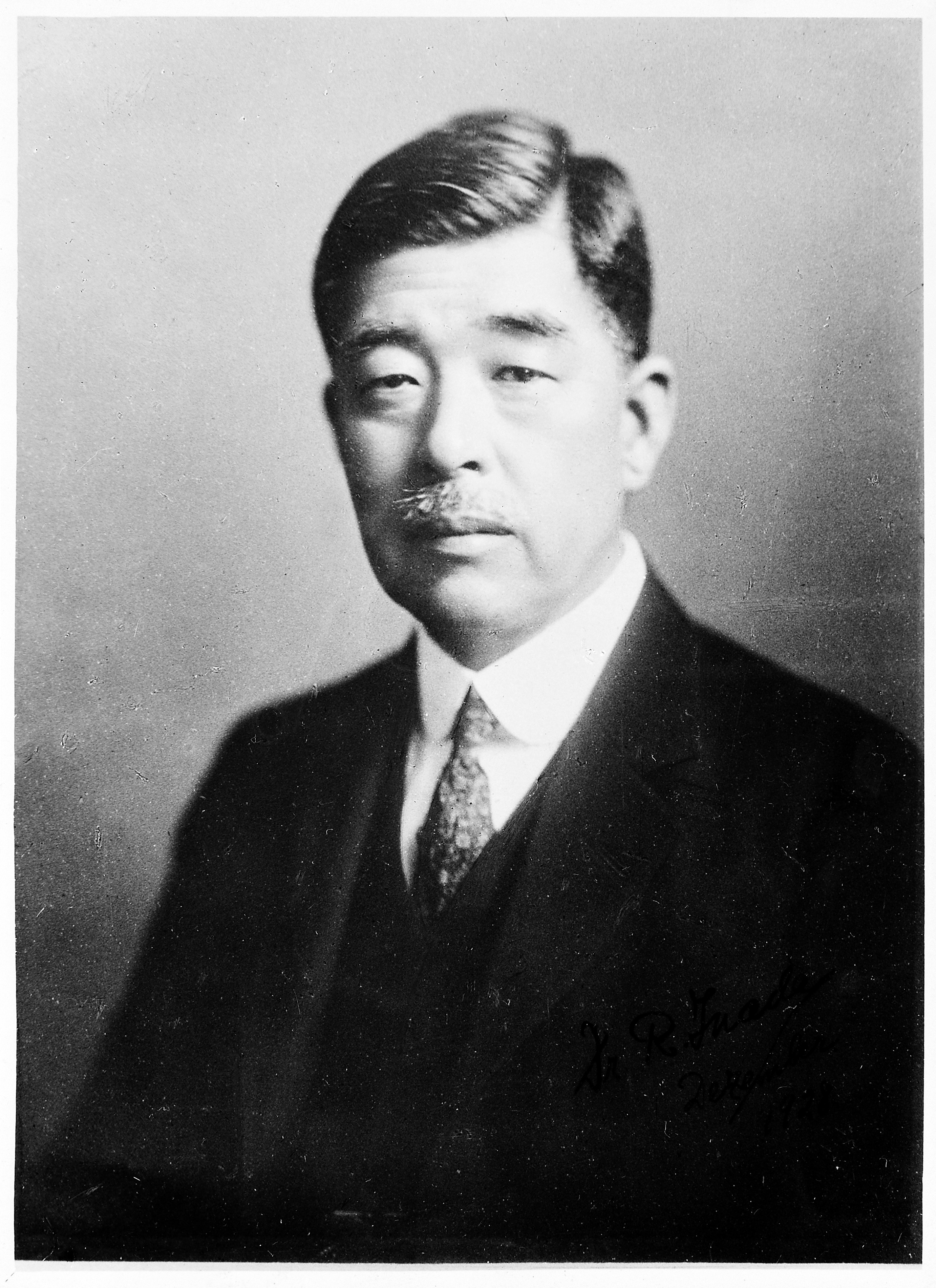 Portrait of.Ryokichi Inada. Wellcome Images Keywords: Ryokichi Inada